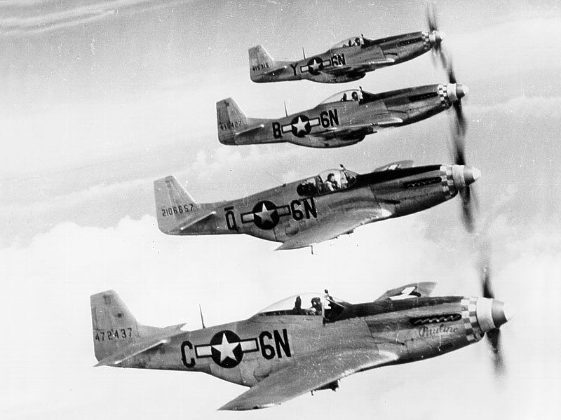 505th Fighter Squadron - P-51 Mustangs 1945